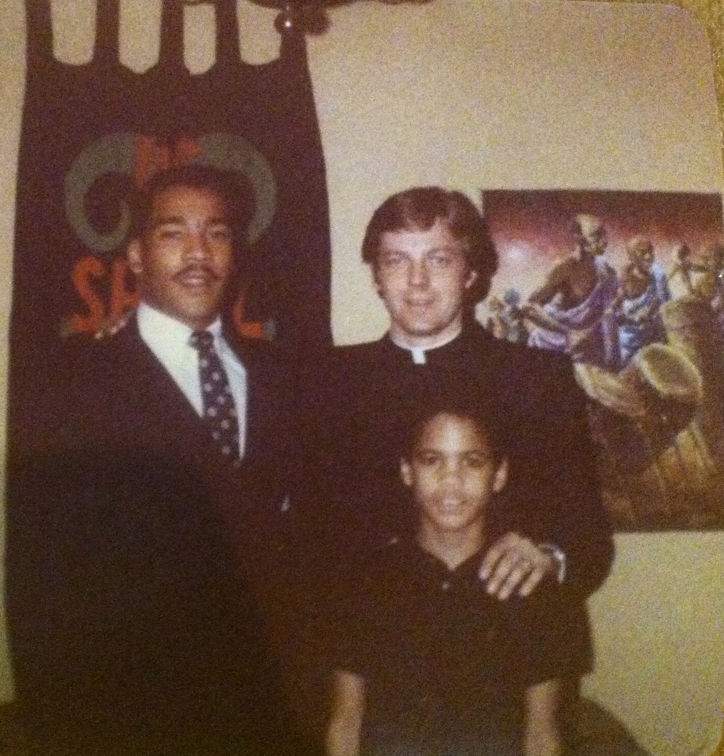 Photograph: A young Fr. Pfleger with Dexter Scott King, and Pfleger's son Lamar.